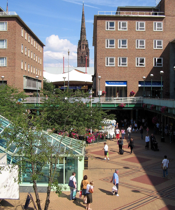 The shopping precinct in Coventry city centre, with the spire of Coventry Cathedral in the background. Photo by G-Man Aug 2005